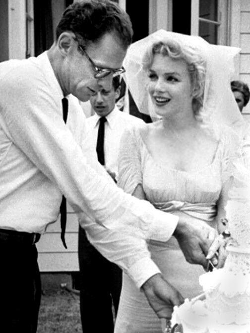 Photo of Marilyn Monroe and Arthur Miller at their wedding from the May 1961 issue of TV-Radio Mirror. Note this is a larger, better quality uncropped copy of the photo seen on Radio-Tv Mirror page 22. A renewal search was done at using the title Radio-TV Mirror. There were no listings for the publication; there's no evidence of continued copyright on the magazine.